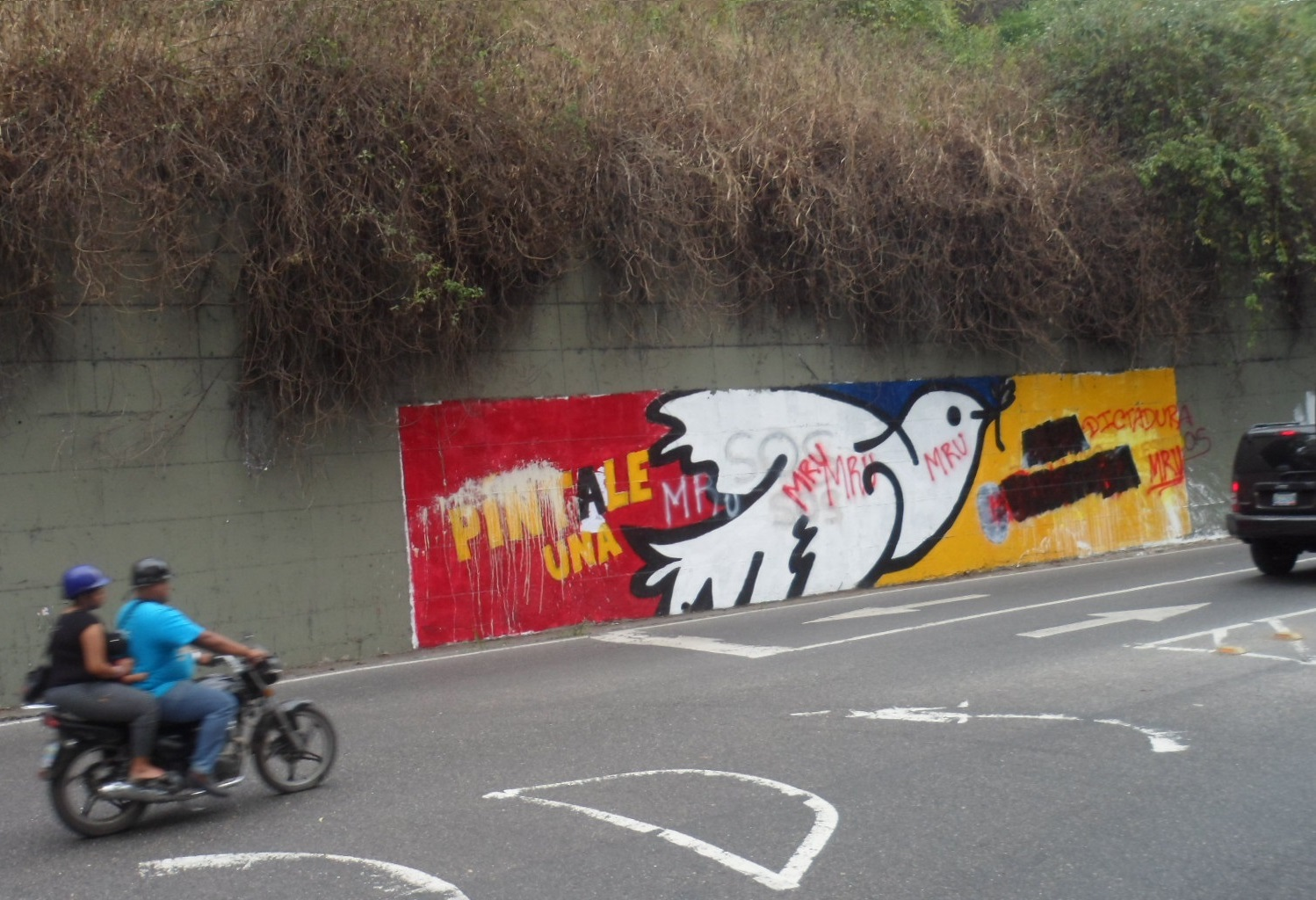 A wall painting criticizing "guarimbas" (barricades). The word "guarimba" was changed afterwards with "dictatorship".